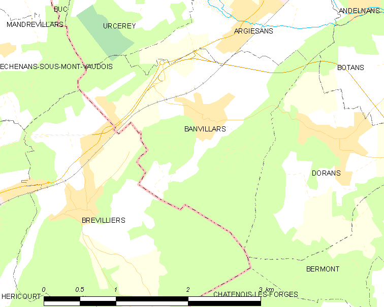 Map of French municipality Banvillars